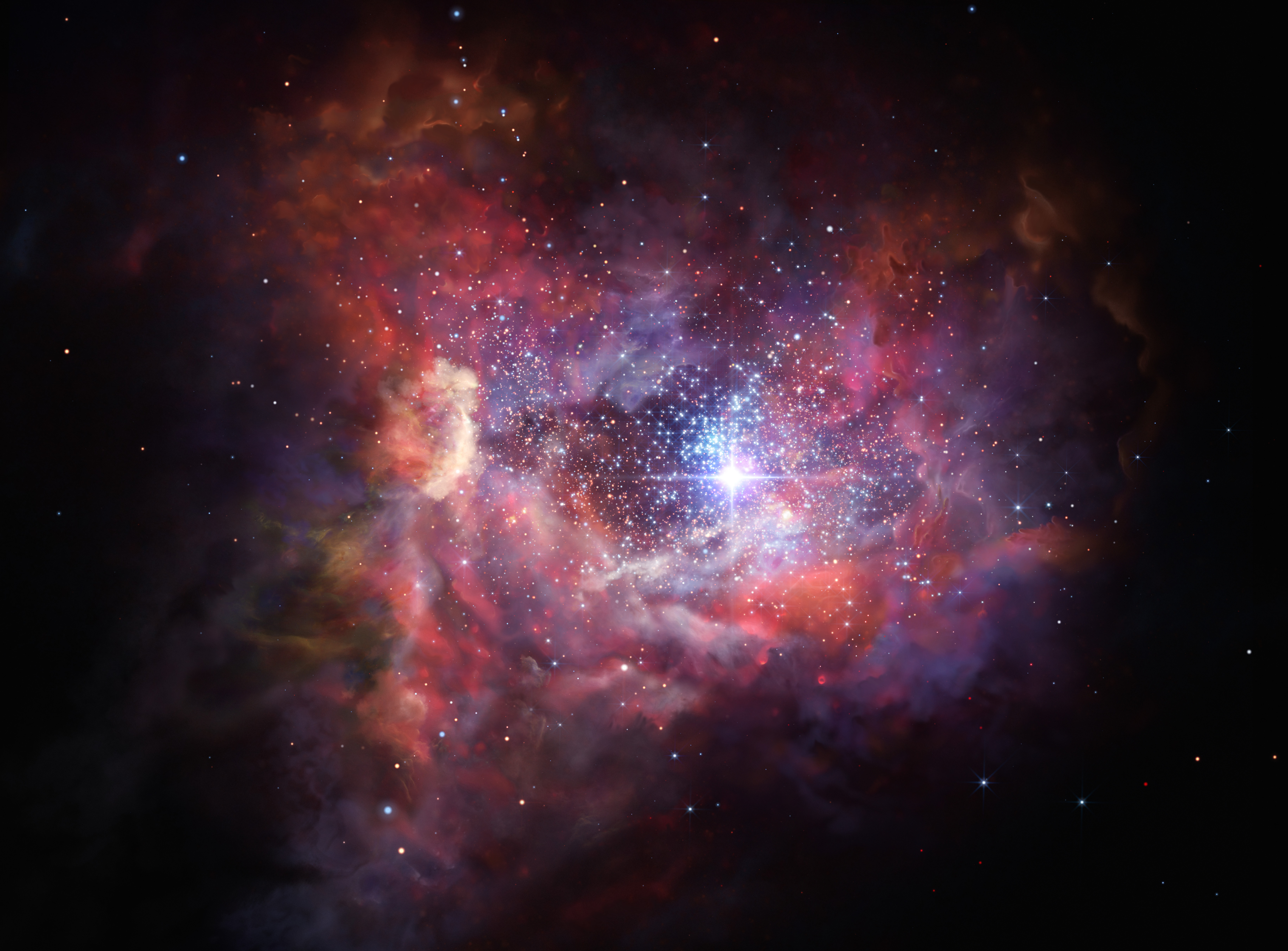 This artist’s impression shows what the very distant young galaxy A2744_YD4 might look like. Observations using ALMA have shown that this galaxy, seen when the Universe was just 4% of its current age, is rich in dust. Such dust was produced by an earlier generation of stars and these observations provide insights into the birth and explosive deaths of the very first stars in the Universe.